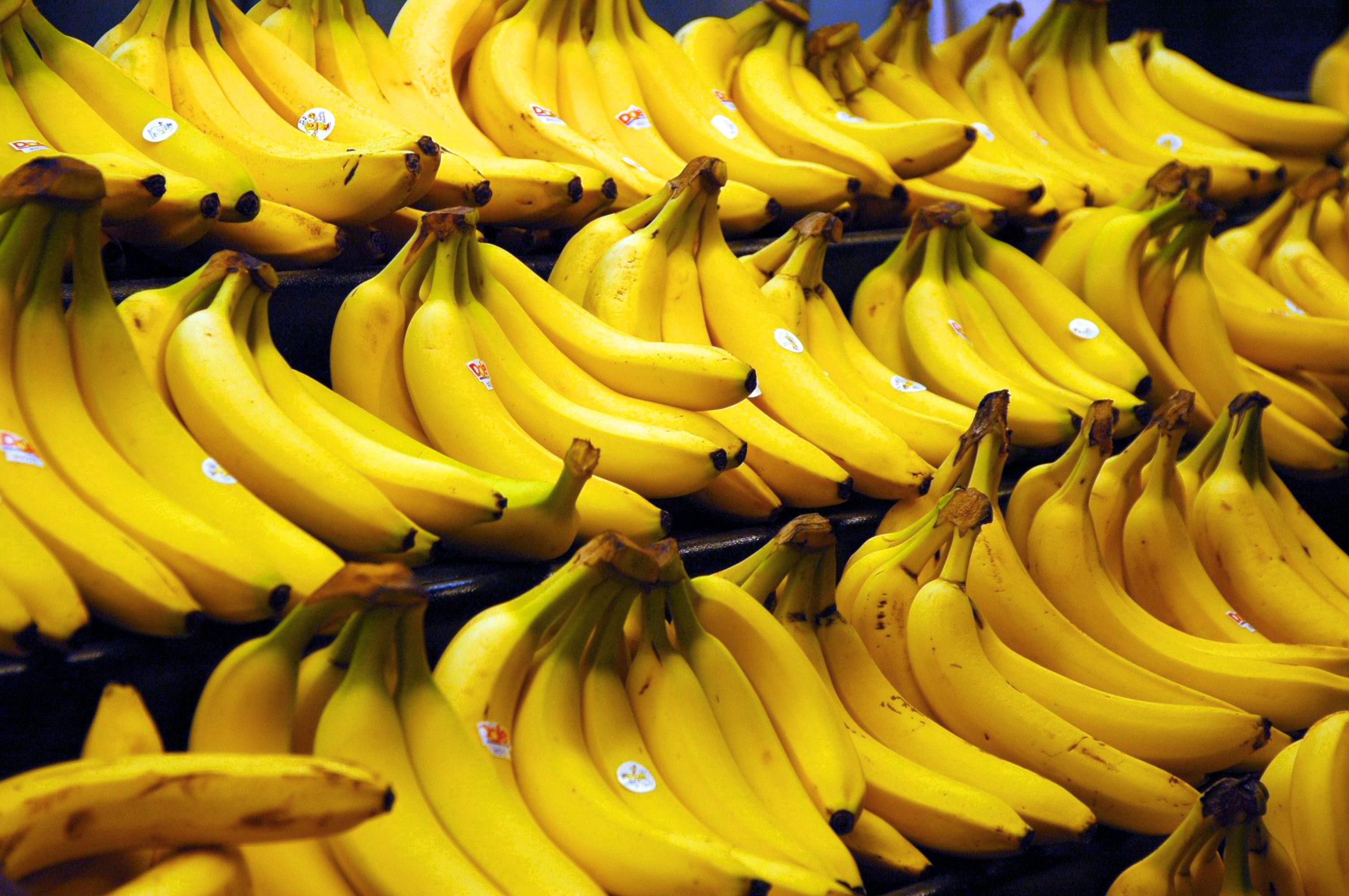 Bananas